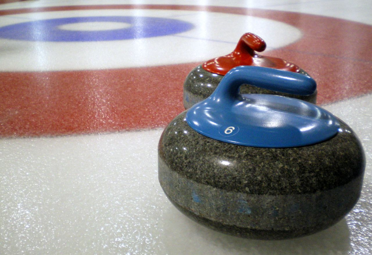 Curling stones on rink with visible pebble